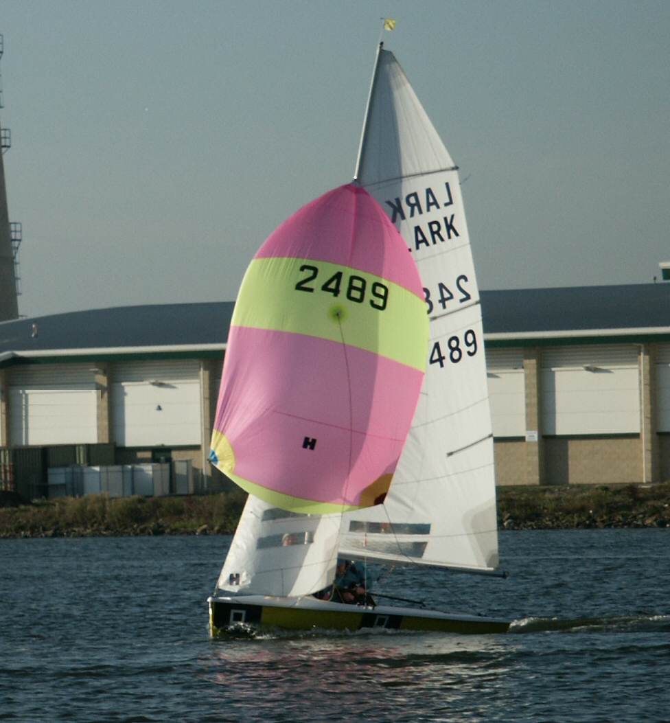 Lark 2489 at Southport 24 Hour Race in 2003.